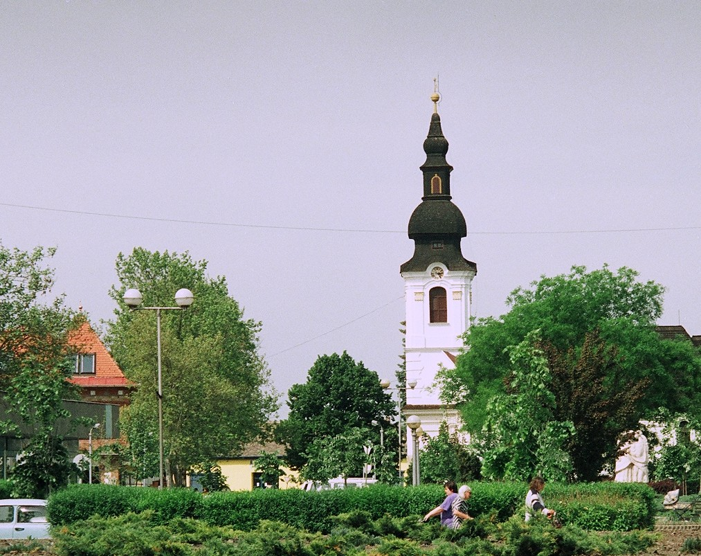 The church of the "German" lutheran community of Mezőberény, Hungary